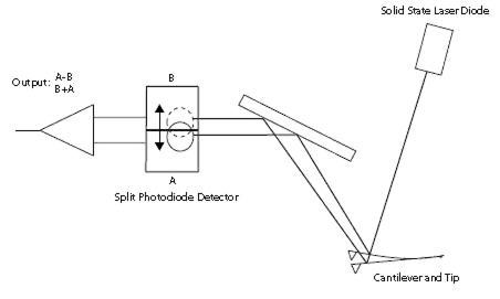 AFM bema detection